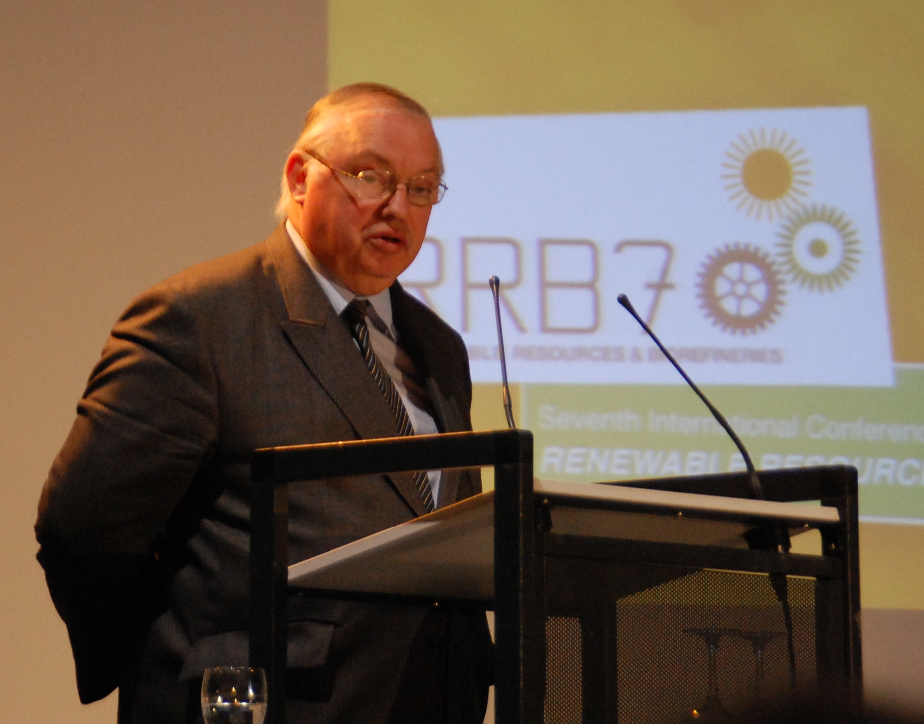 Paul Breyne, Governor of West Flanders, at the 7th International Conference on Renewable Resources & Biorefineries (RRB7) in Bruges, 09.01.2011